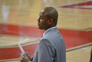 Coach